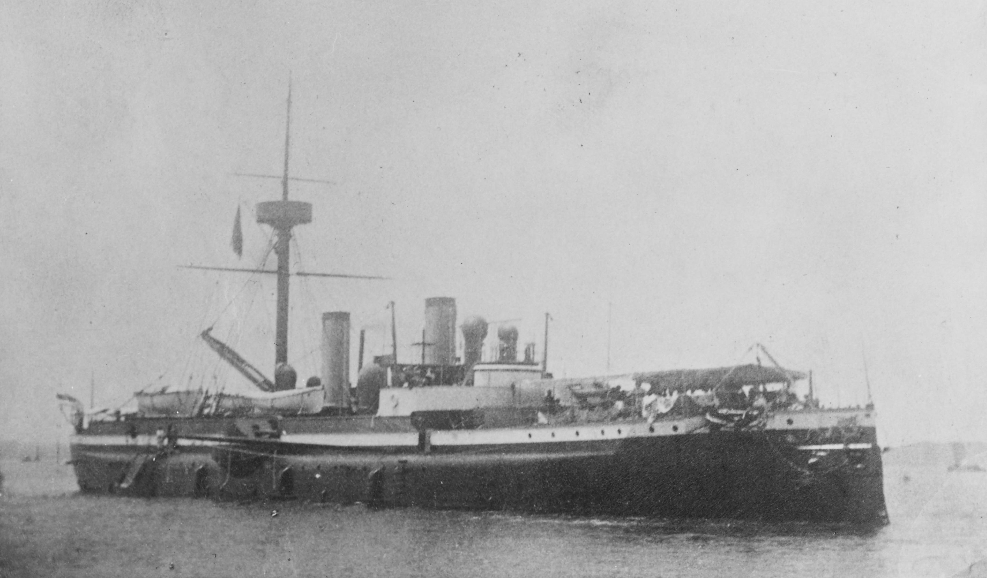 "Chinese warship LAI-YUEN". The ship is now commonly referred to as the Laiyuan. It served from 1888 until sunk in 1895. This file has been cropped by uploader.